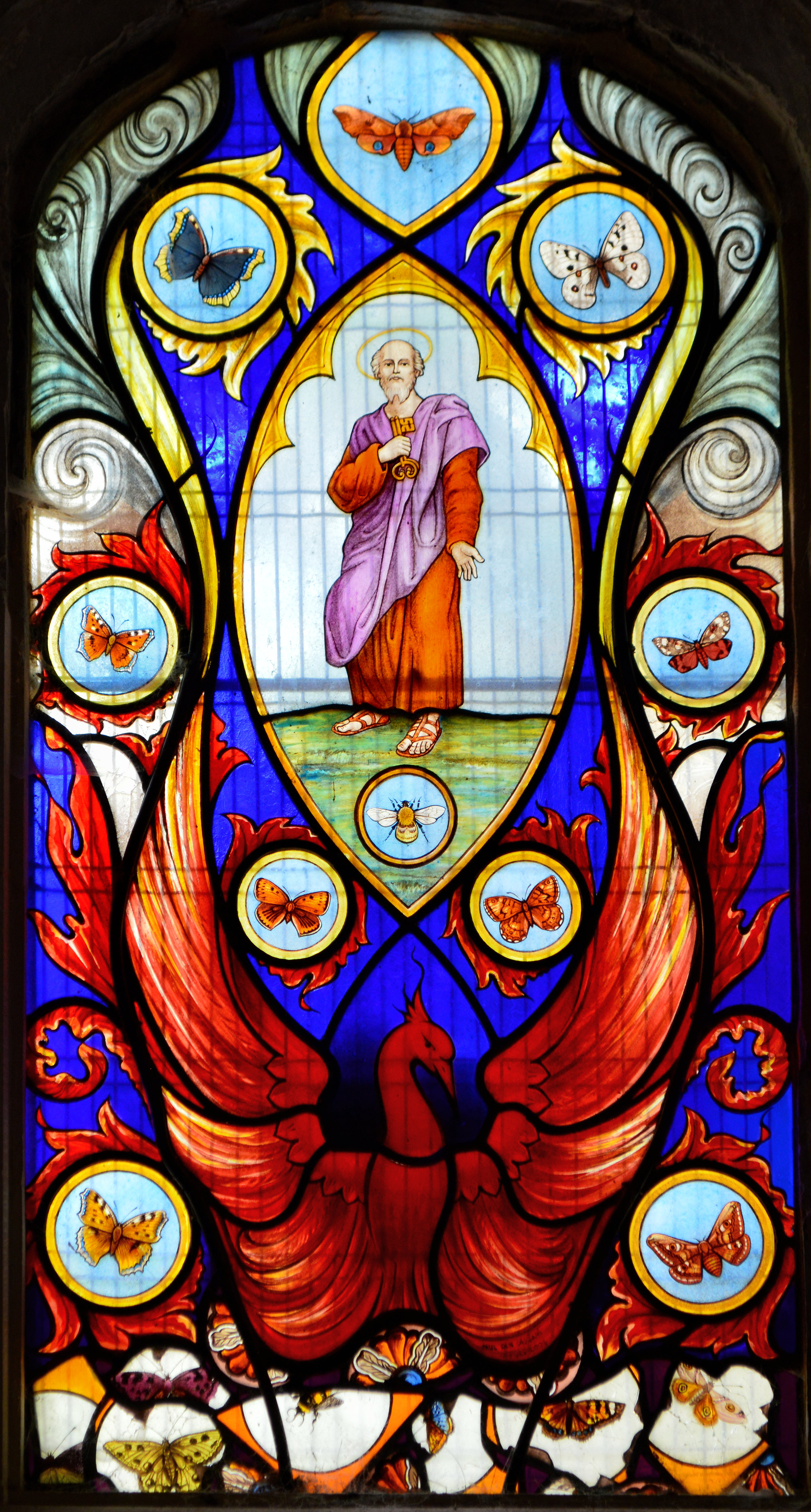 Wilmington Church, the new bee and butterfly window. By Paul San Casciani